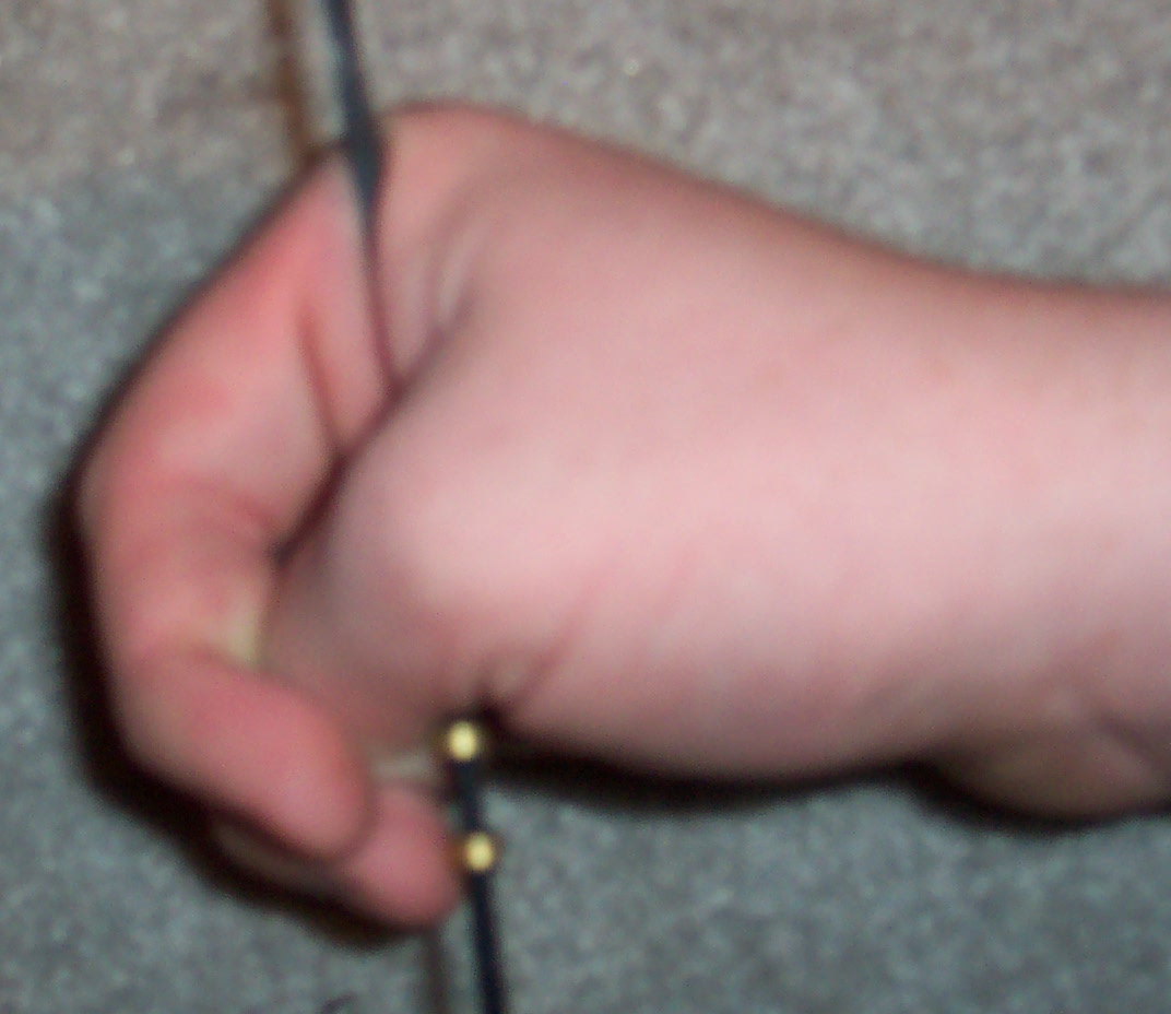 A Mongolian Draw